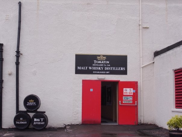 Entrance door of Tomatin distillery